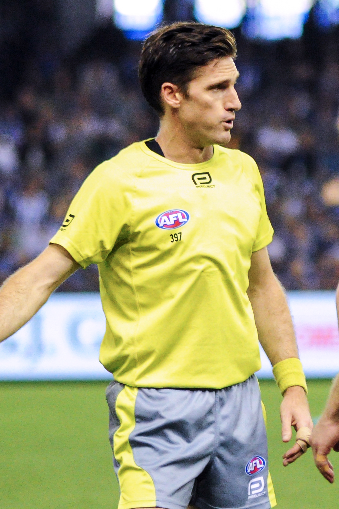 Matt Stevic during the AFL round five match between North Melbourne and Hawthorn on Sunday, 22 April 2018 at Etihad Stadium in Melbourne, Victoria.